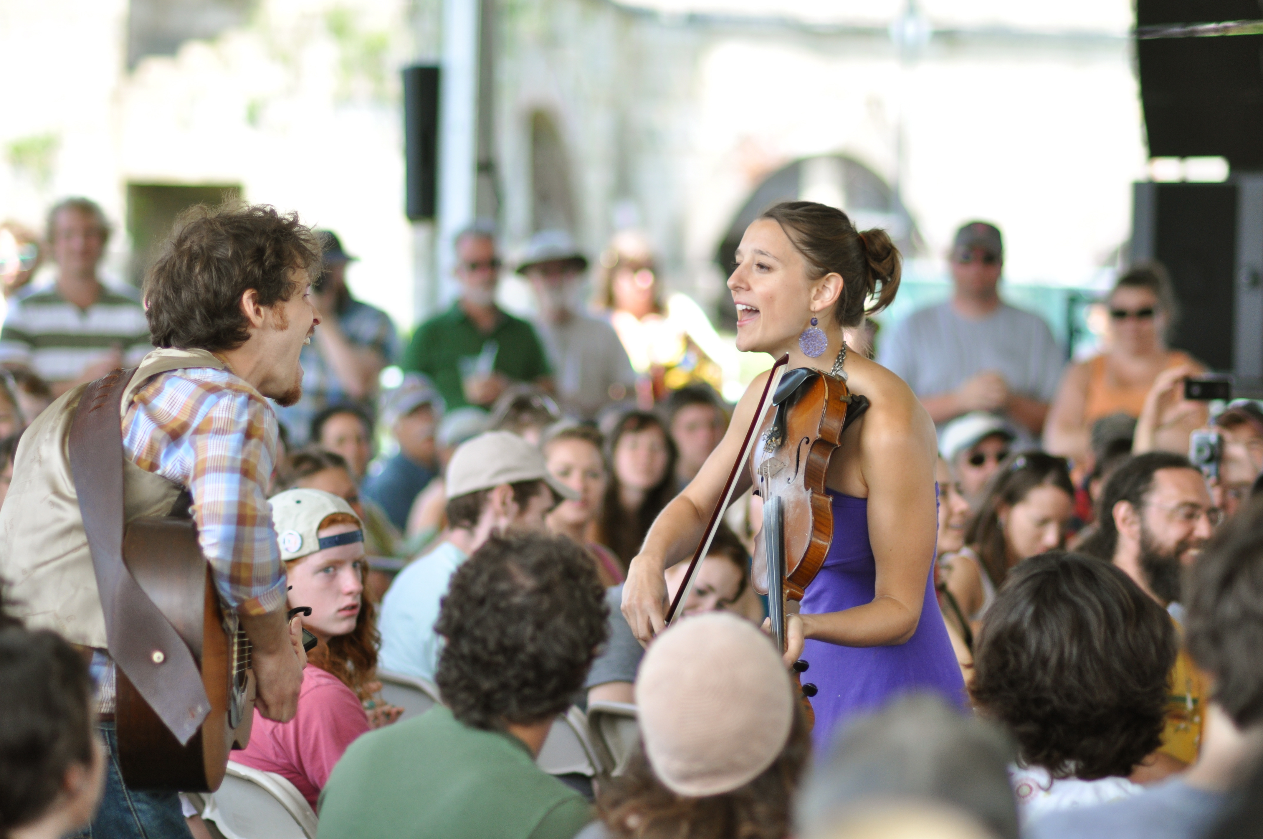 David Wax Museum perform at the Newport Folks Festival in 2010